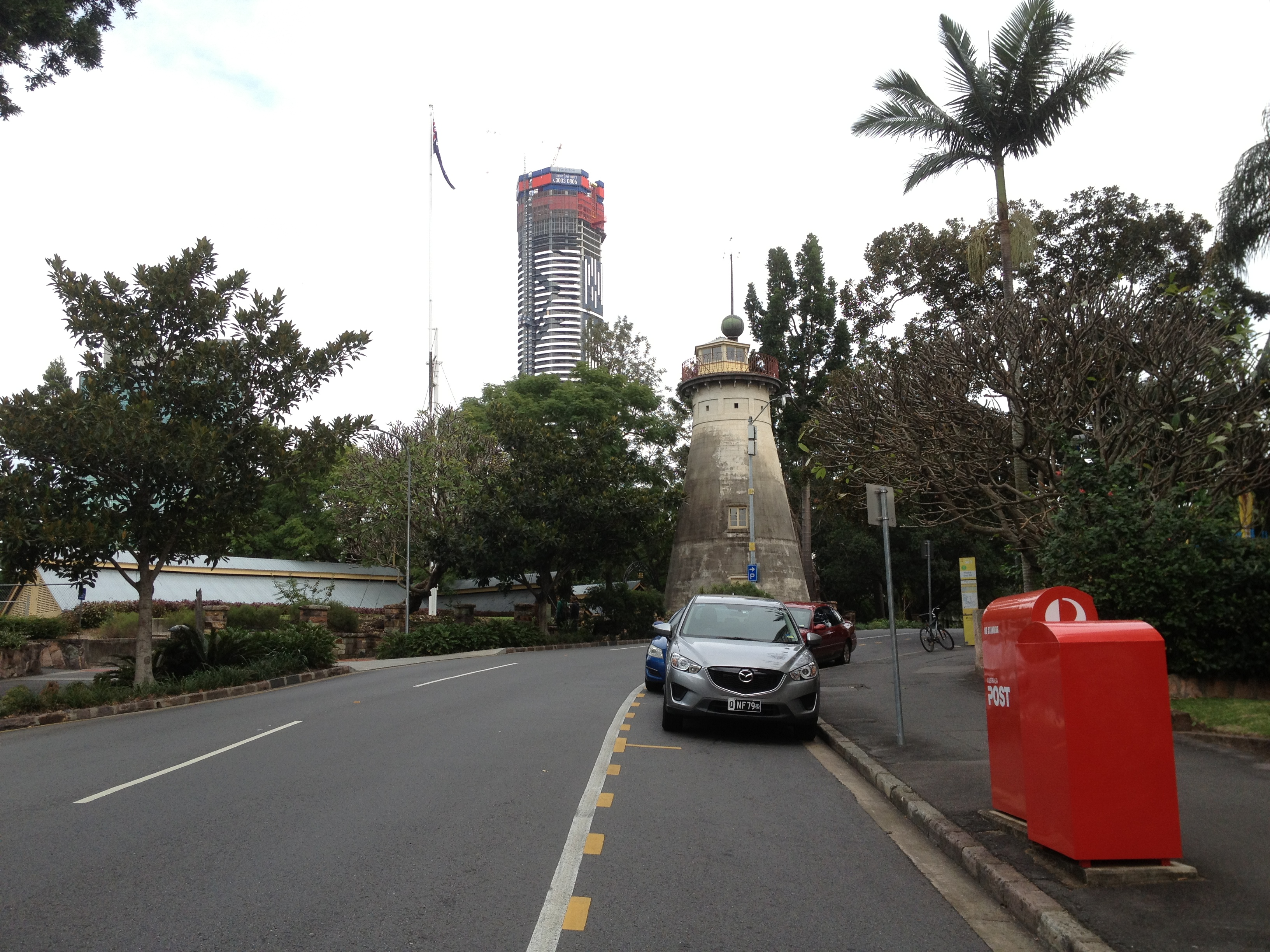 Mailbox in Brisbane, Australia, 06.2013